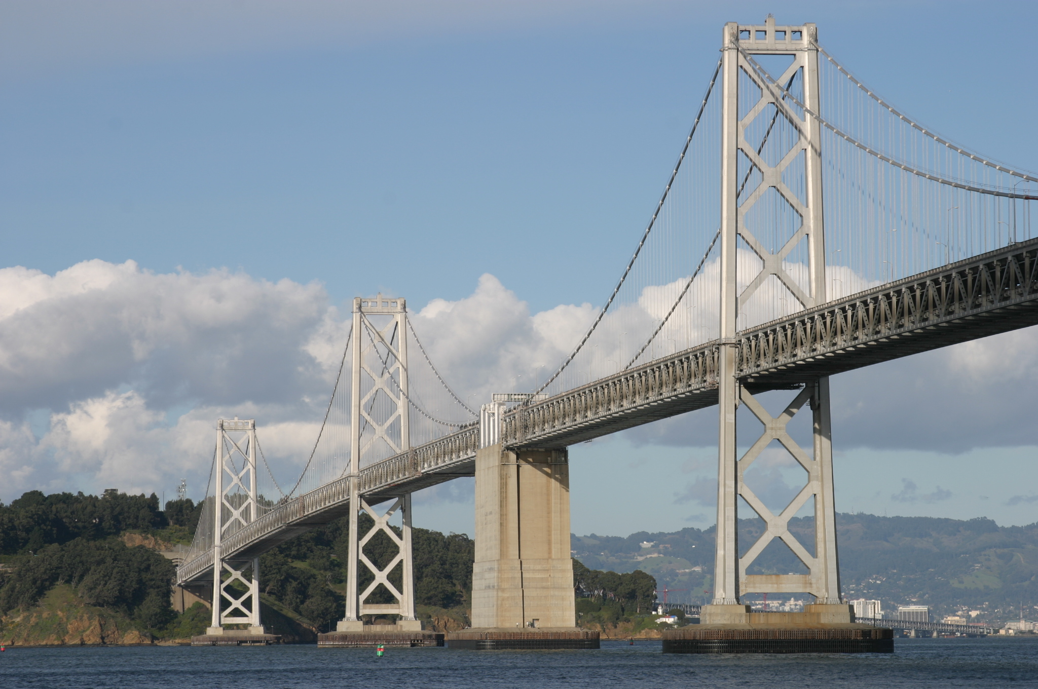 Shot of the San Francisco Bay BridgeBay Bridge